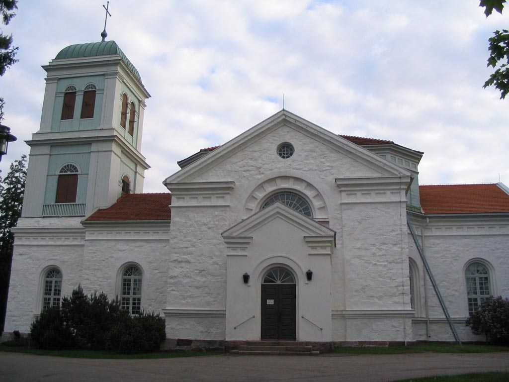 Curch of Kymi in Kotka, Finland.